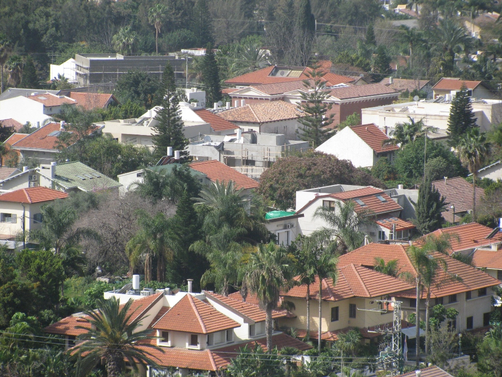 Old Colony, residents are beginning to miss